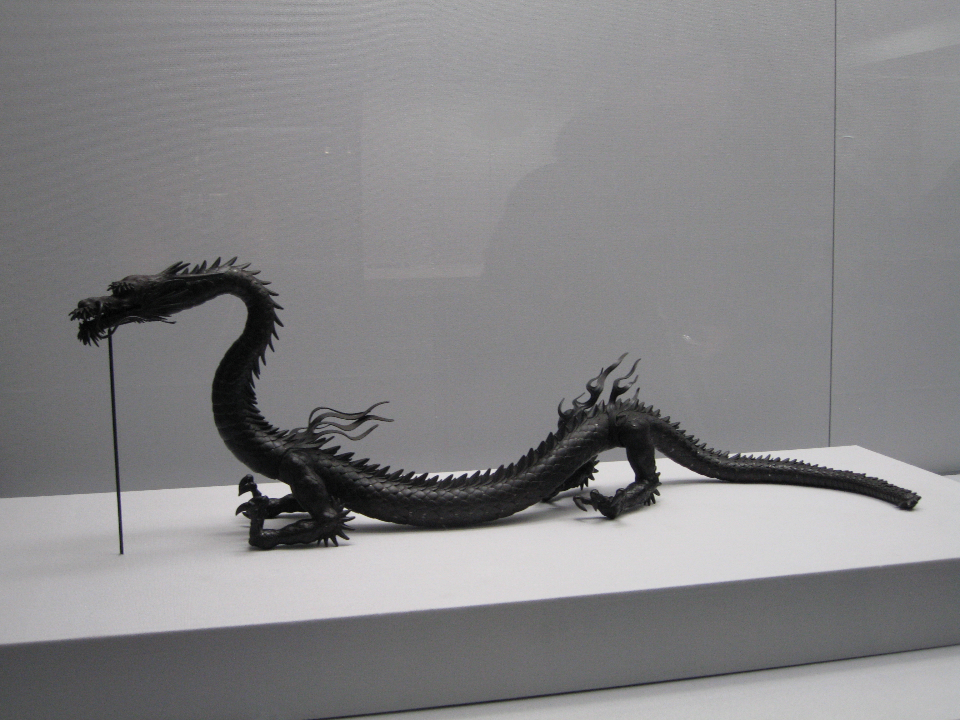 A Jizai Okimono (articulated figure) of dragon made of iron, by Myochin Muneaki in 1713. Displayed in Tokyo National Museum.